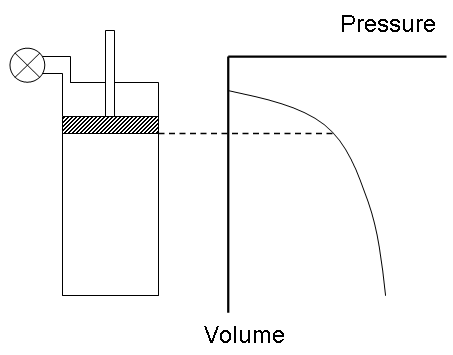 Sketch of an indicator diagram for a steam engine.